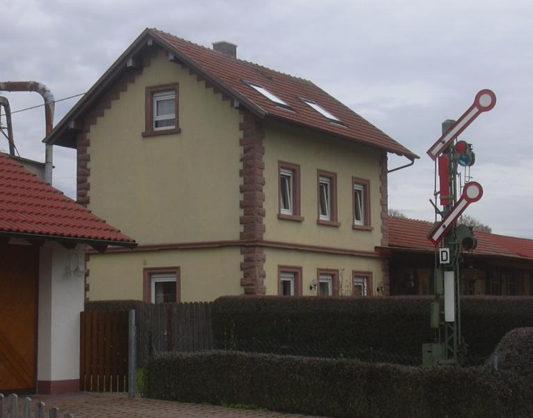 The former station of Limbach on the "Odenwaldexpress" Mosbach–Mudau (narrow-gauge railway track)